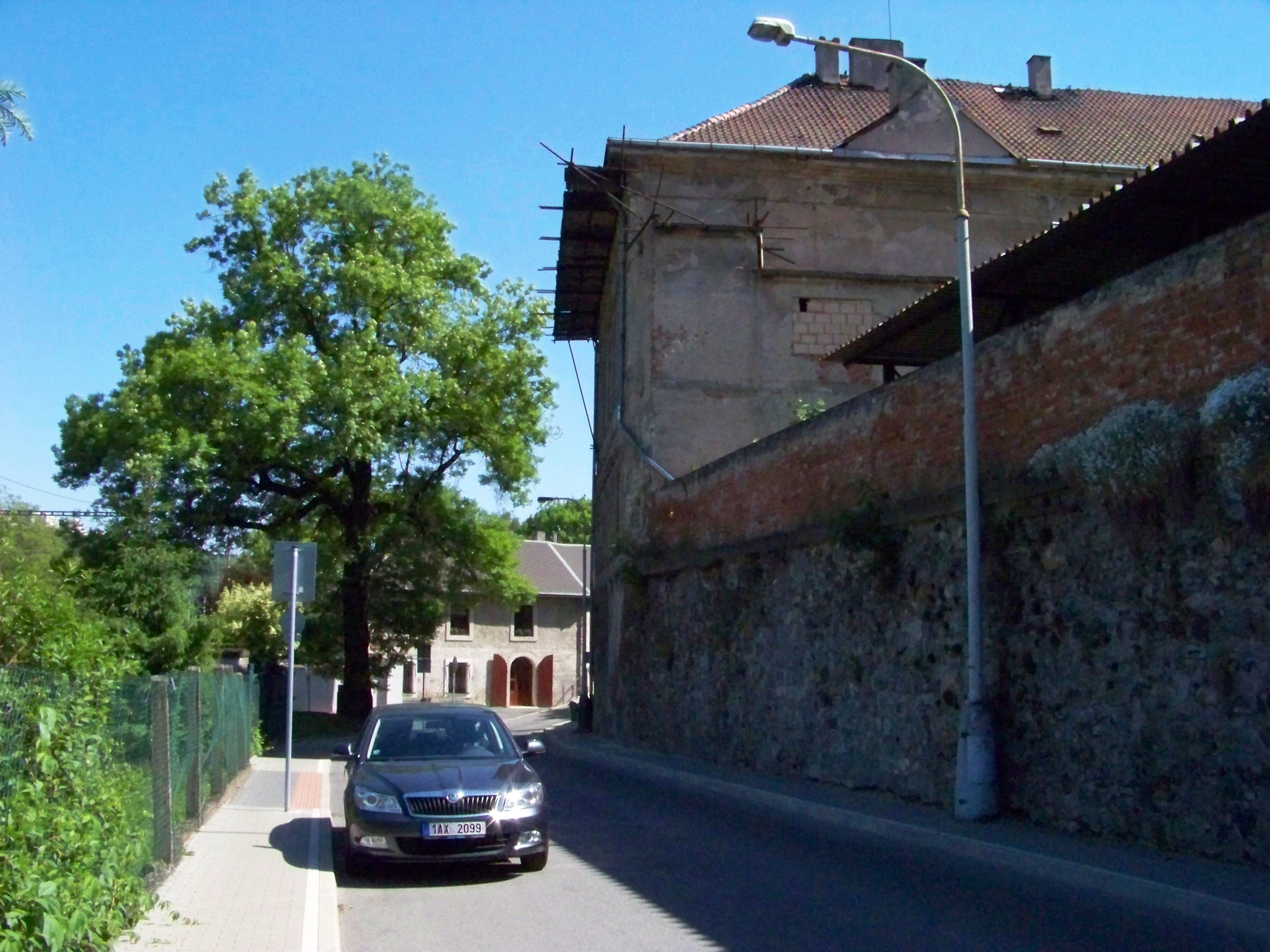 Prague-Sedlec, the Czech Republic. V Sedlci street.